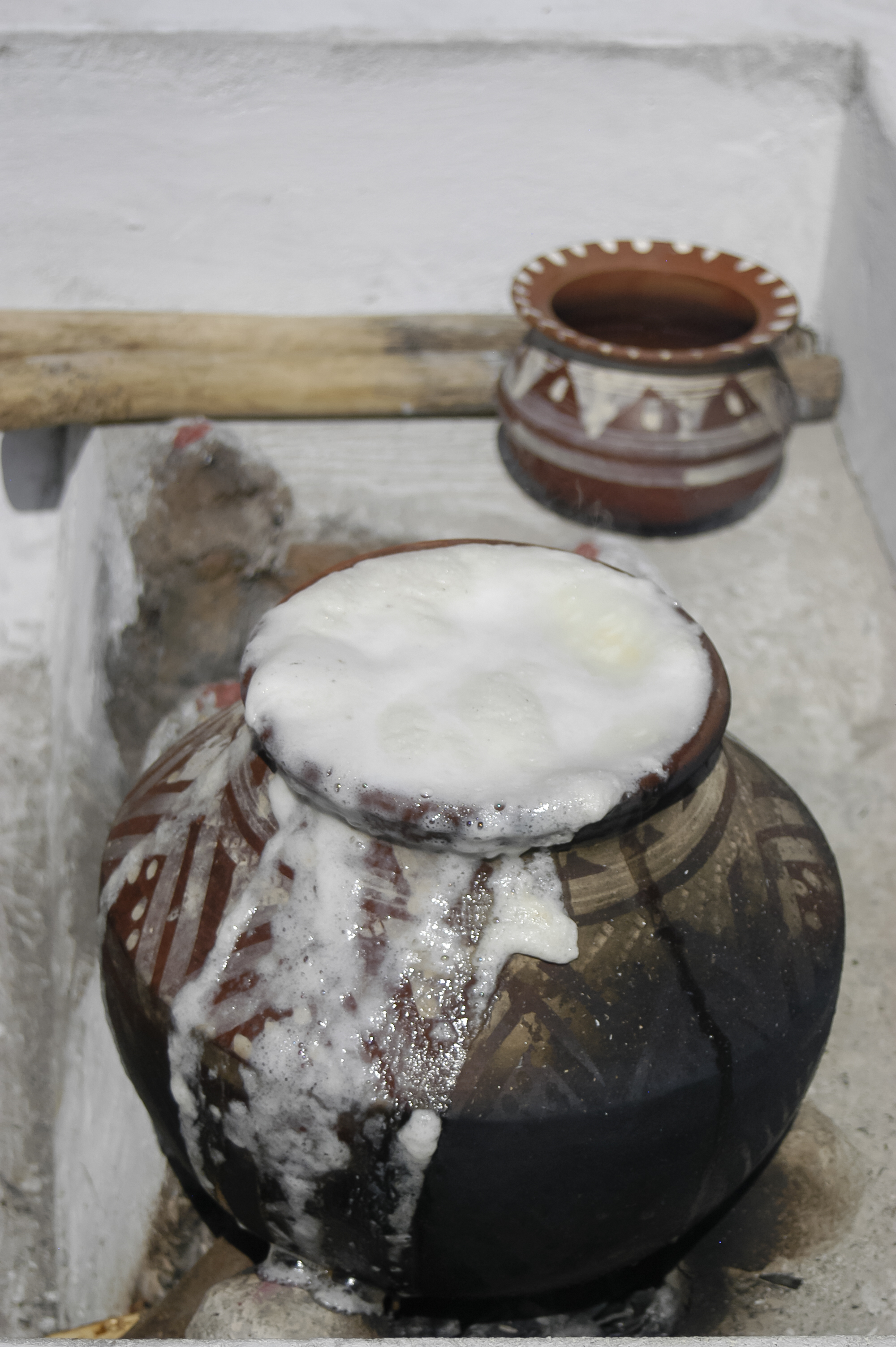 Pongal or Pongali being cooked in Salem, Tamil Nadu, India